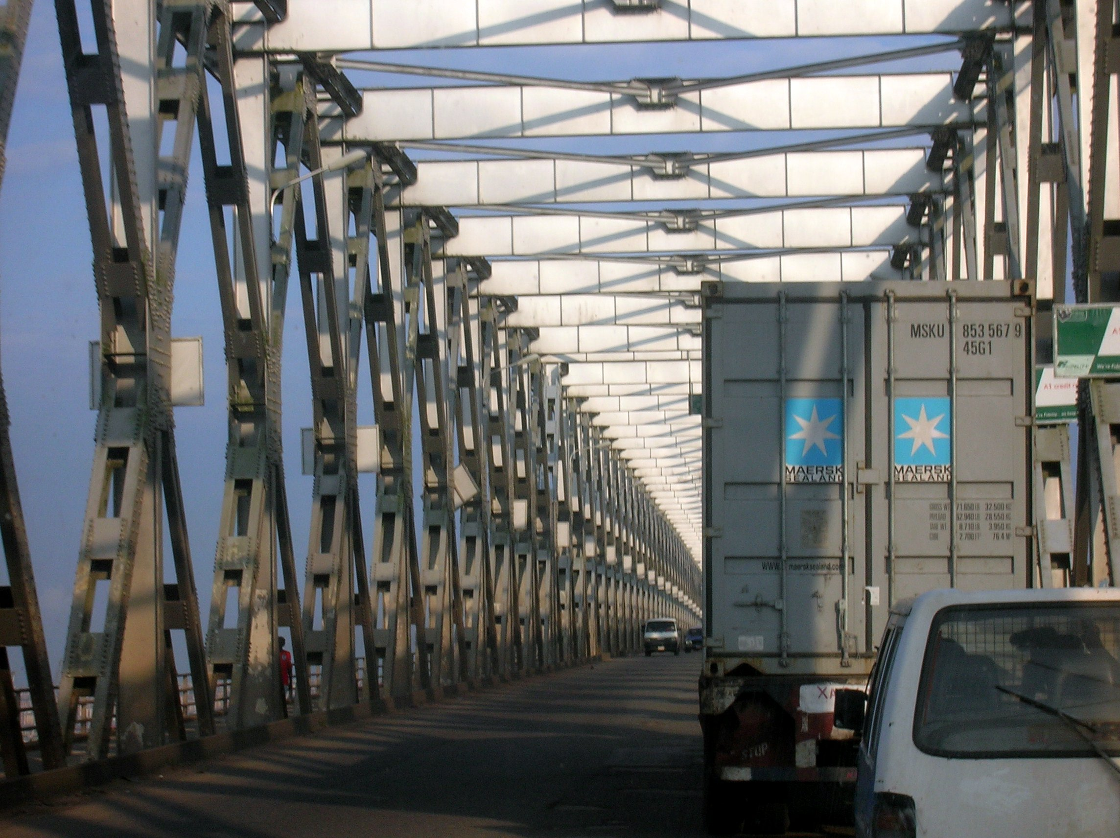 The Onitsha bridge into Onitsha. Niger Bridge - Gateway into Anambra.